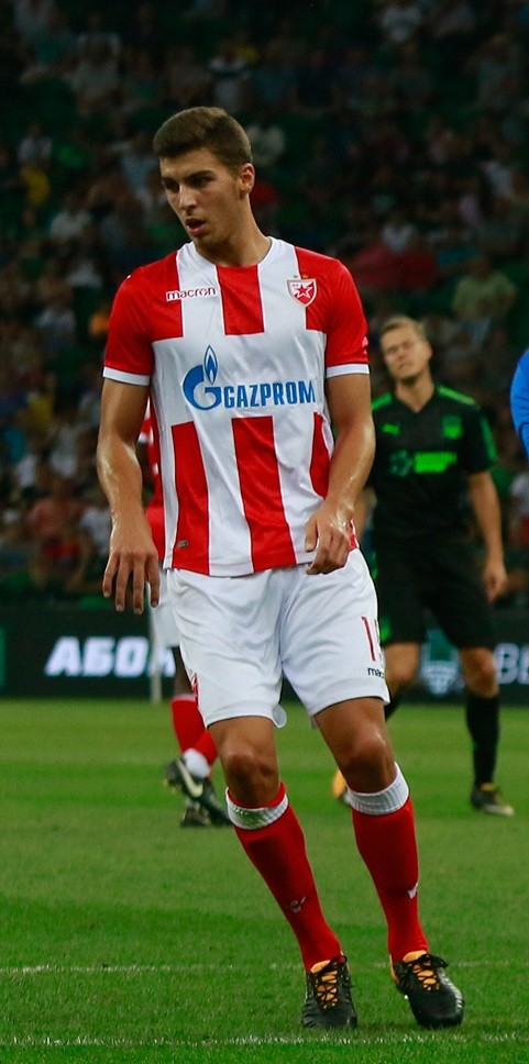 Srđan Babić